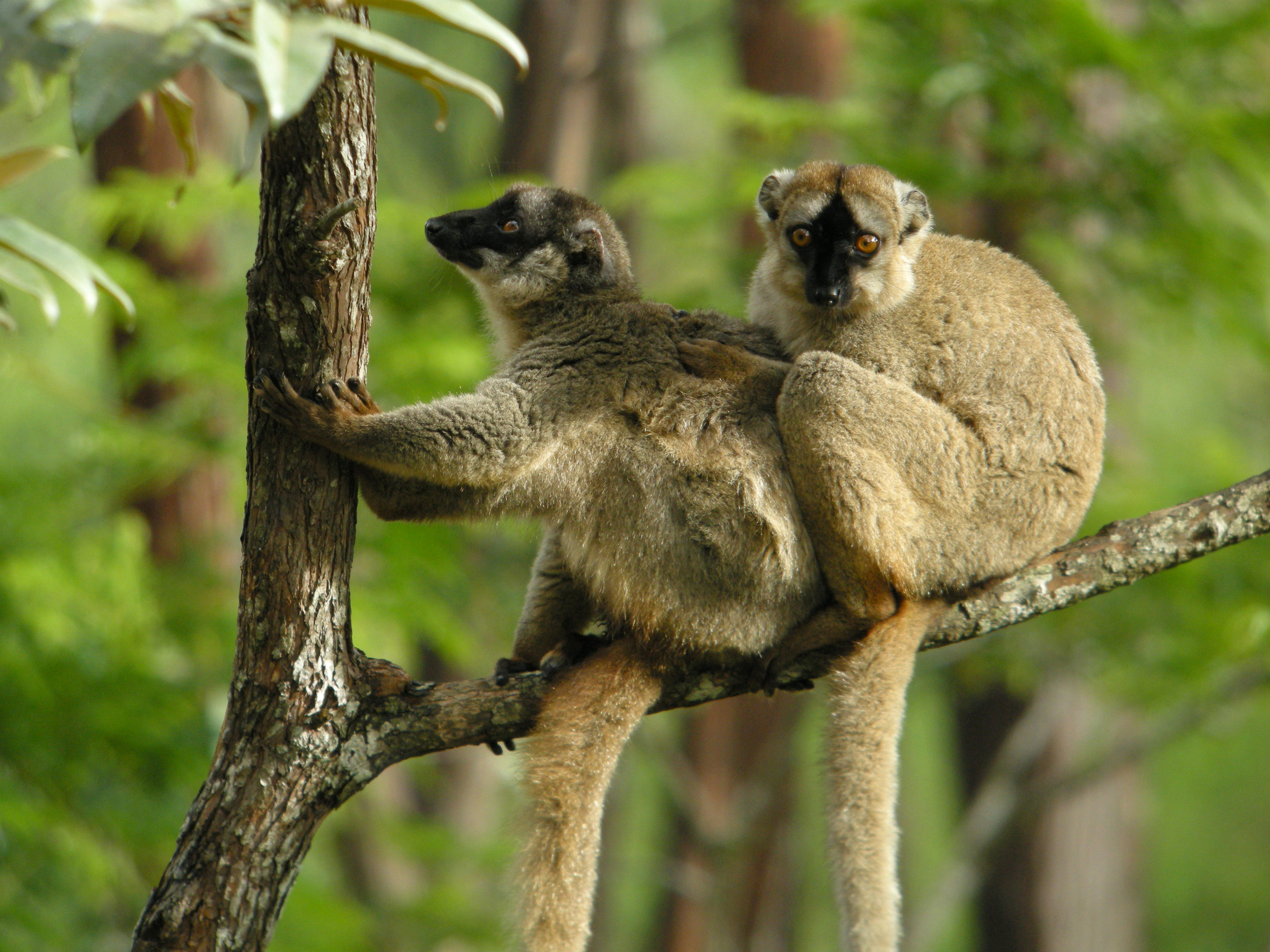 Two Brown Lemur, Mantadia, Madagascar Swarowski 80 HD 30 X, Coolpix P5100 (Adapter DCB) Note: The location information may be incorrect. Only Eulemur fulvus is found in Mantadia, but these are obviously either E. rufifrons or E. rufus from the west side of the island.